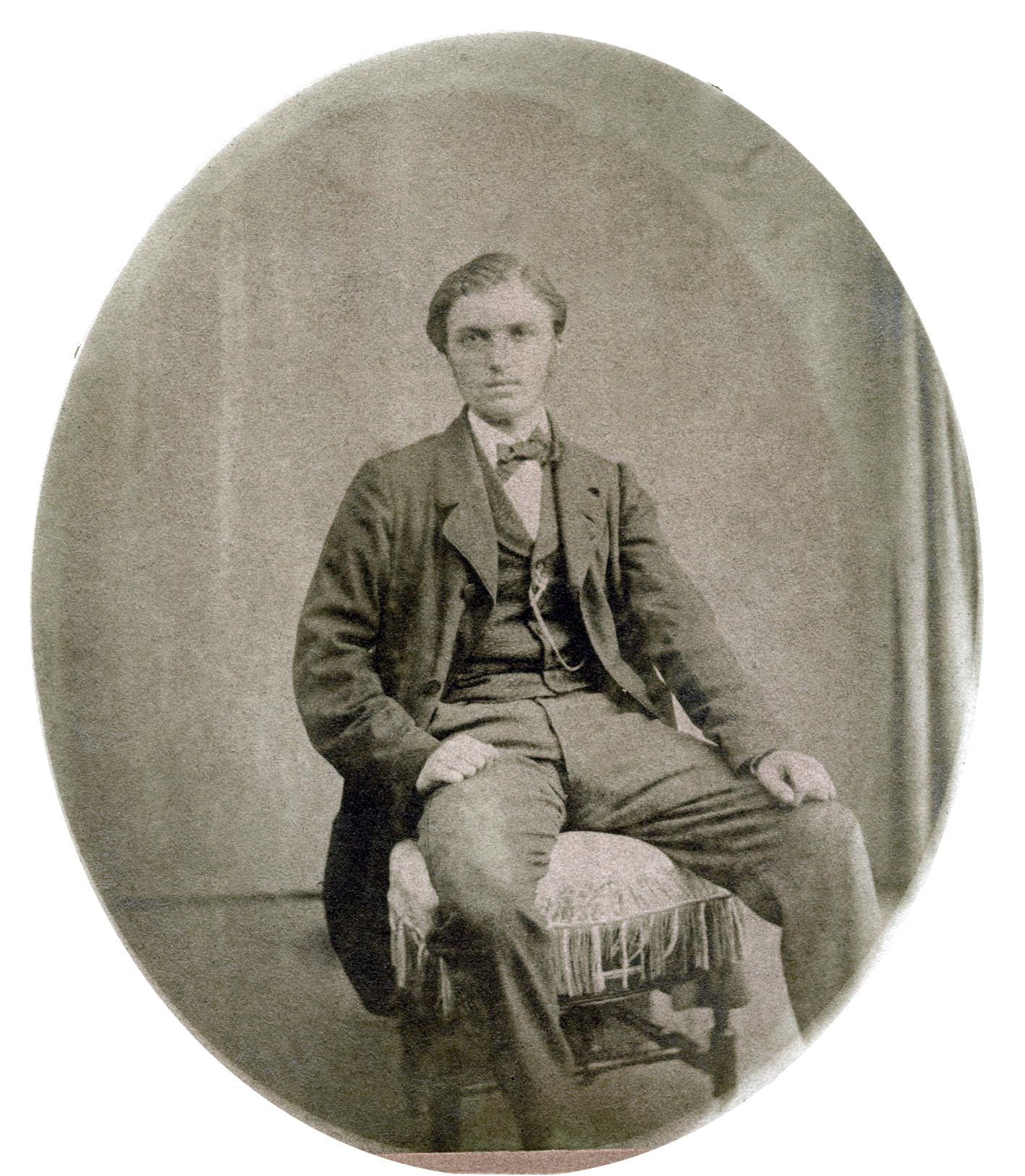 Louis Lartet – French prehistorian (1840 - 1899) Source: Library and Documentation Service Museum of Toulouse